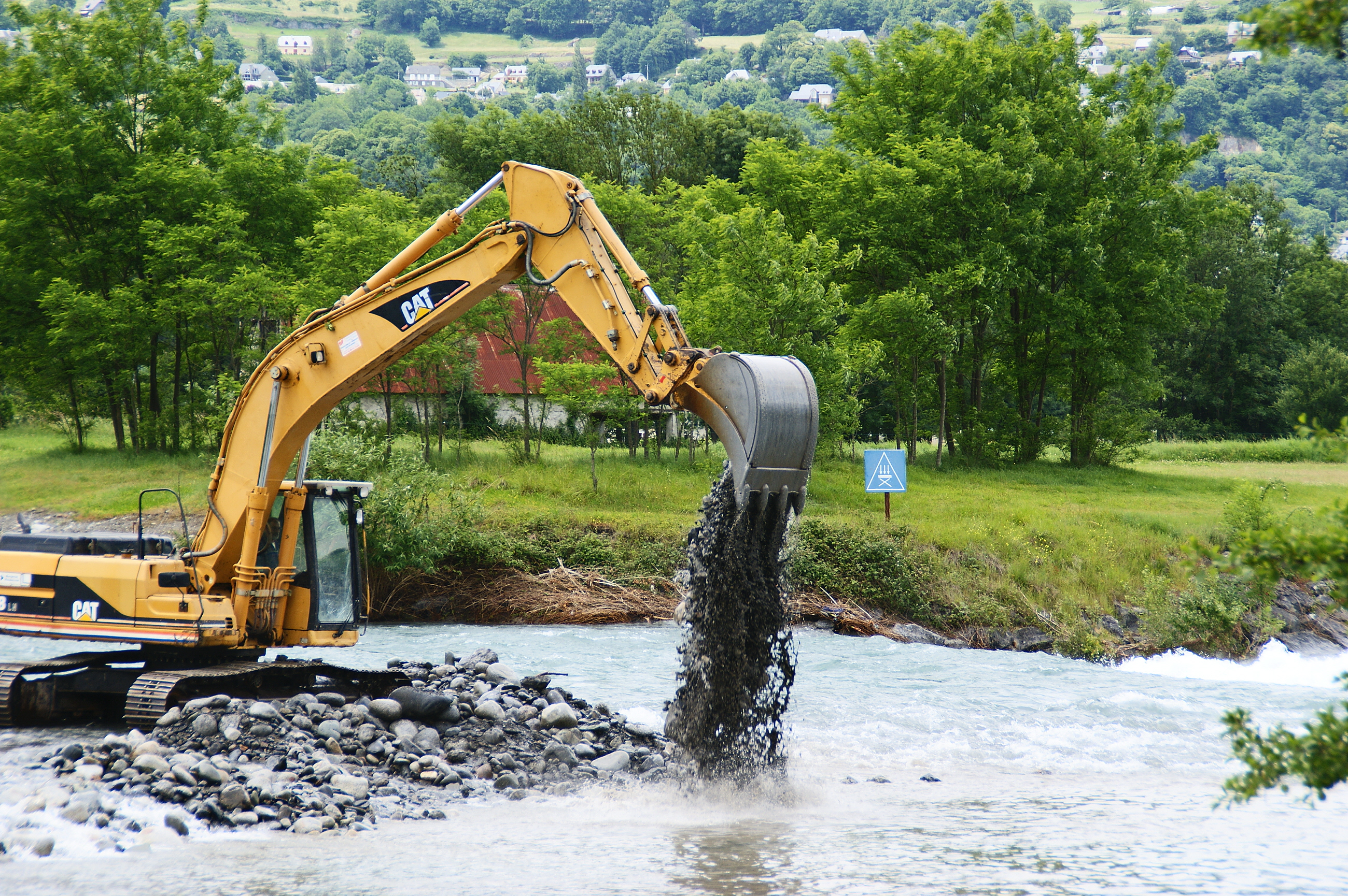 Maintenance work on the river (gave de) Pau in the Haute Pyrénées in France close to Argelès-Gazost after the winter snows have melted to improve flow & clear the riverbed.